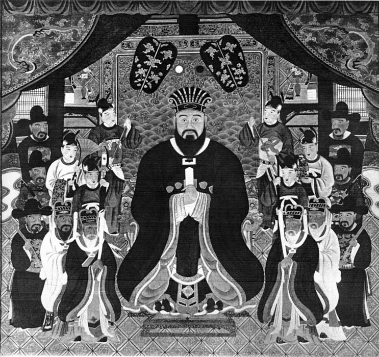 King Shō Shin, 1465-1526